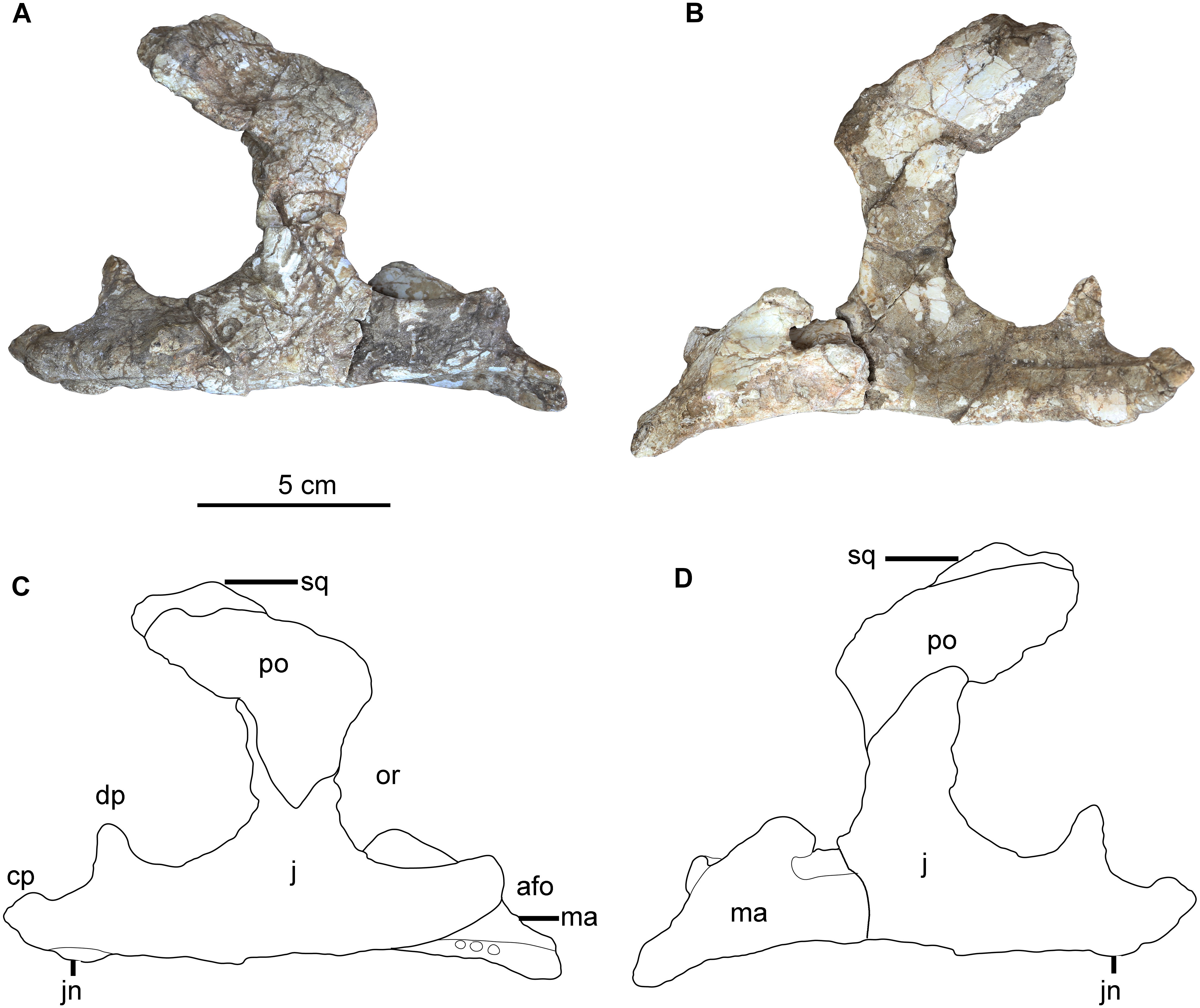 The articulated right maxilla and jugal of Hualianceratops wucaiwanensis (IVPP V18641). (A) photograph in lateral view, (B) photograph in medial view, (C) drawing in lateral view, (D) drawing in medial view. Abbreviations: afo, antorbital fossa; cp, caudomedial process of the jugal; dp, caudodorsal process of the jugal; j, jugal; jn, jugal node; ma, maxilla; or, orbit; po, postorbital; sq, squamosal.